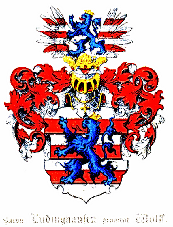 Coat of Arms of Ludinghausen_gennant_Wolff family